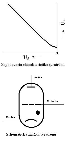 Thyratron